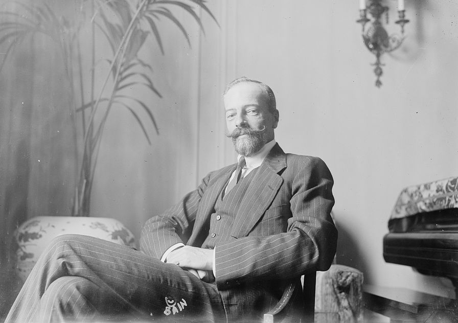 Bain News Service, publisher. Grand Duke Alexander Mikhailovich of Russia 1 negative : glass ; 5 x 7 in. or smaller. Notes: Title from unverified data provided by the Bain News Service on the negatives or caption cards. Forms part of: George Grantham Bain Collection (Library of Congress). Format: Glass negatives. Repository: Library of Congress, Prints and Photographs Division, Washington, D.C. 20540 USA, General information about the Bain Collection is available at Persistent URL: Call Number: LC-B2- 2826-2